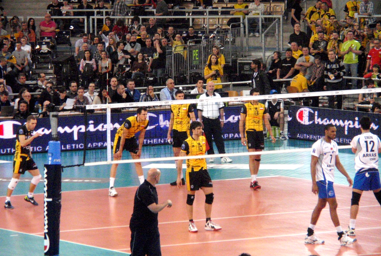 The match PGE Skra Bełchatów - Arkas Izmir in Final Four CEV Champions League 2011-12 on March 17, 2012.